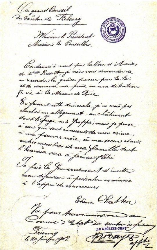 Petition of grace written by Etienne Chatton to the Grand Council of the Canton of Fribourg, Switzerland.